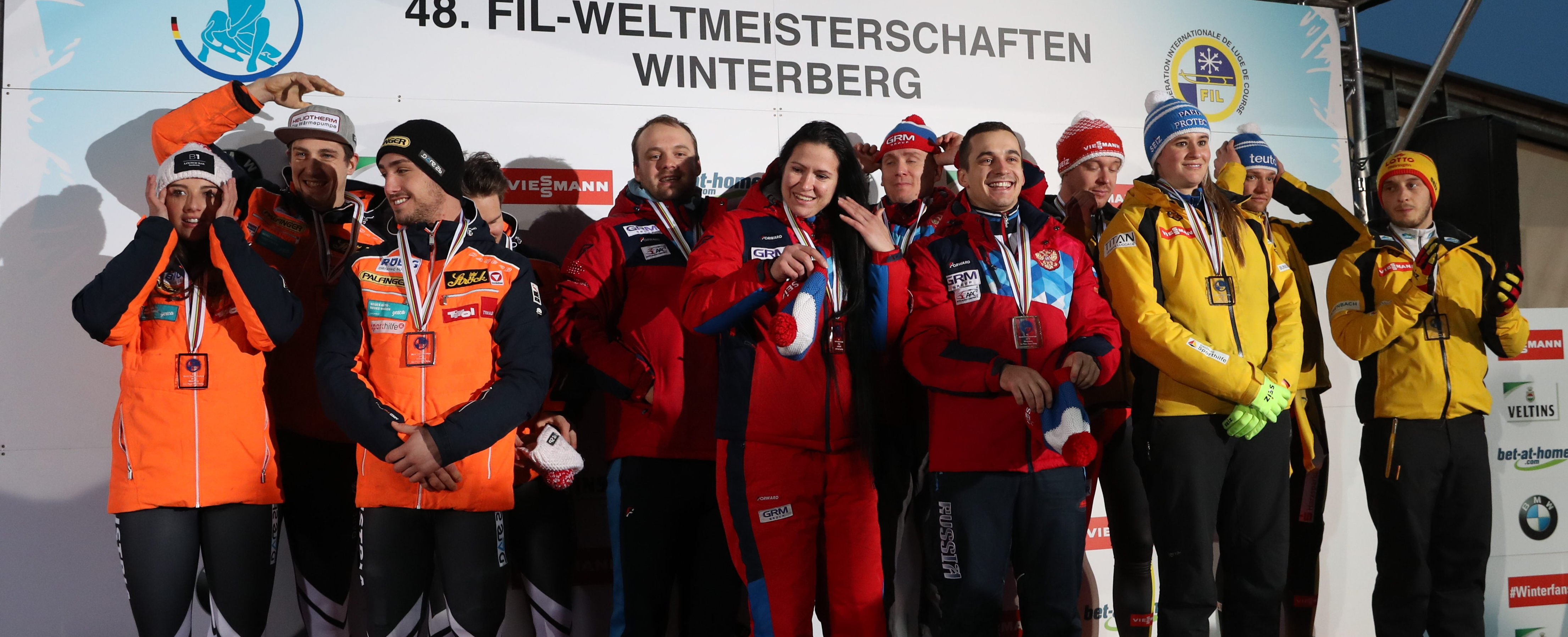 Victory ceremony for the Men's and Team Relay race at the FIL World Luge Championships 2019 in Winterberg